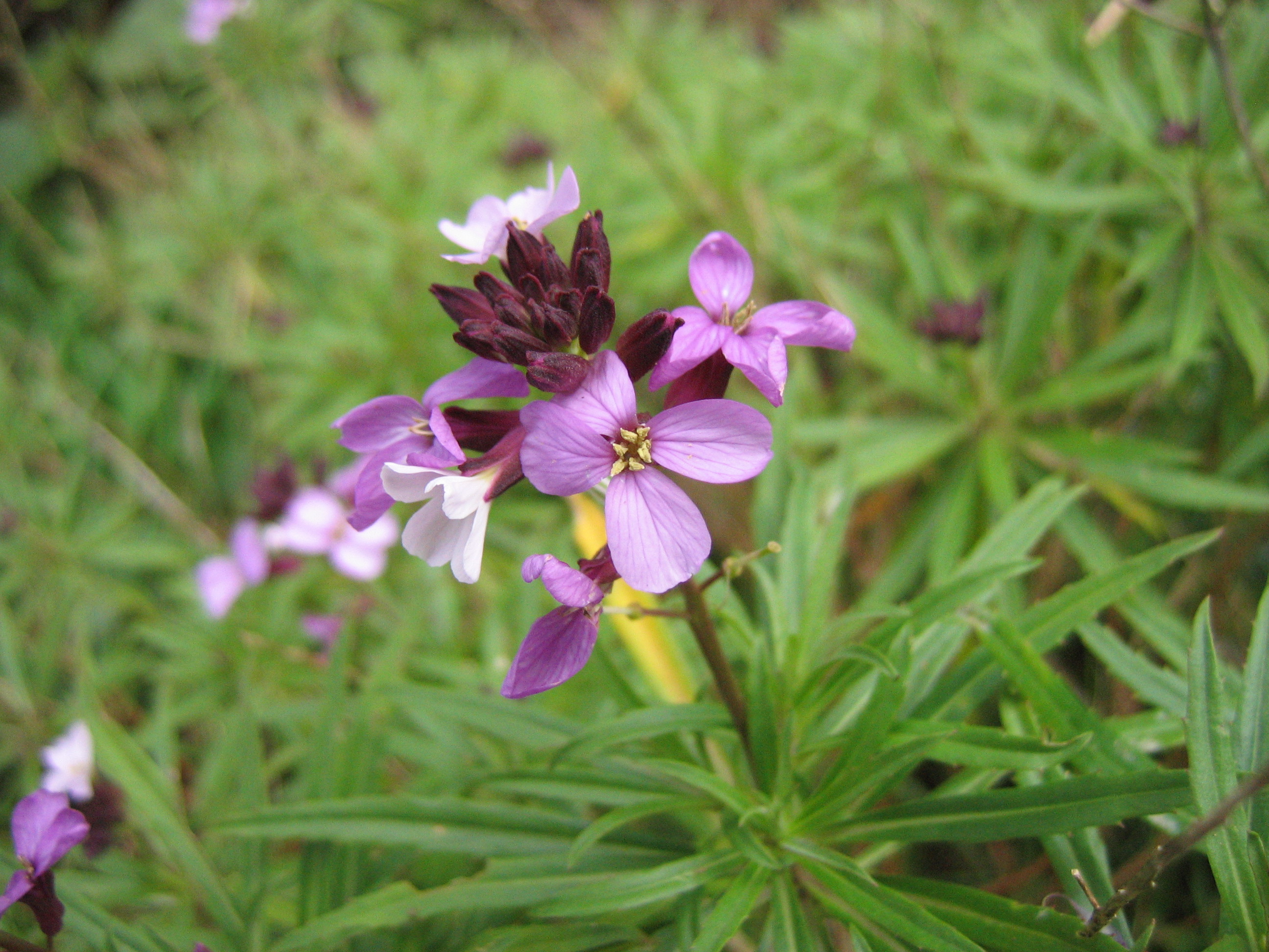 Erysimum bicolor (Hornem.) DC., Brassicaceae, Mirador de El Bailadero, Gomera, Canary Islands, ca. 1200 m